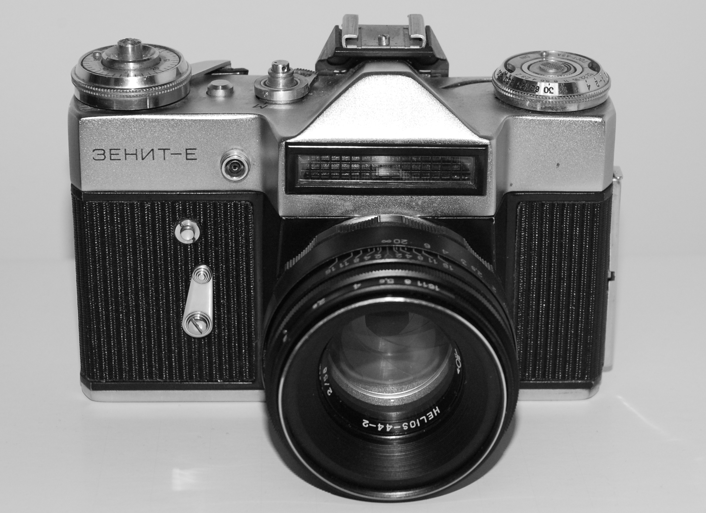 1977 Zenit E with Industar 50-2 50/3.5 Lens and Selenium-cell lightmeter and a Helios 44-2 58mm f/2 lens.